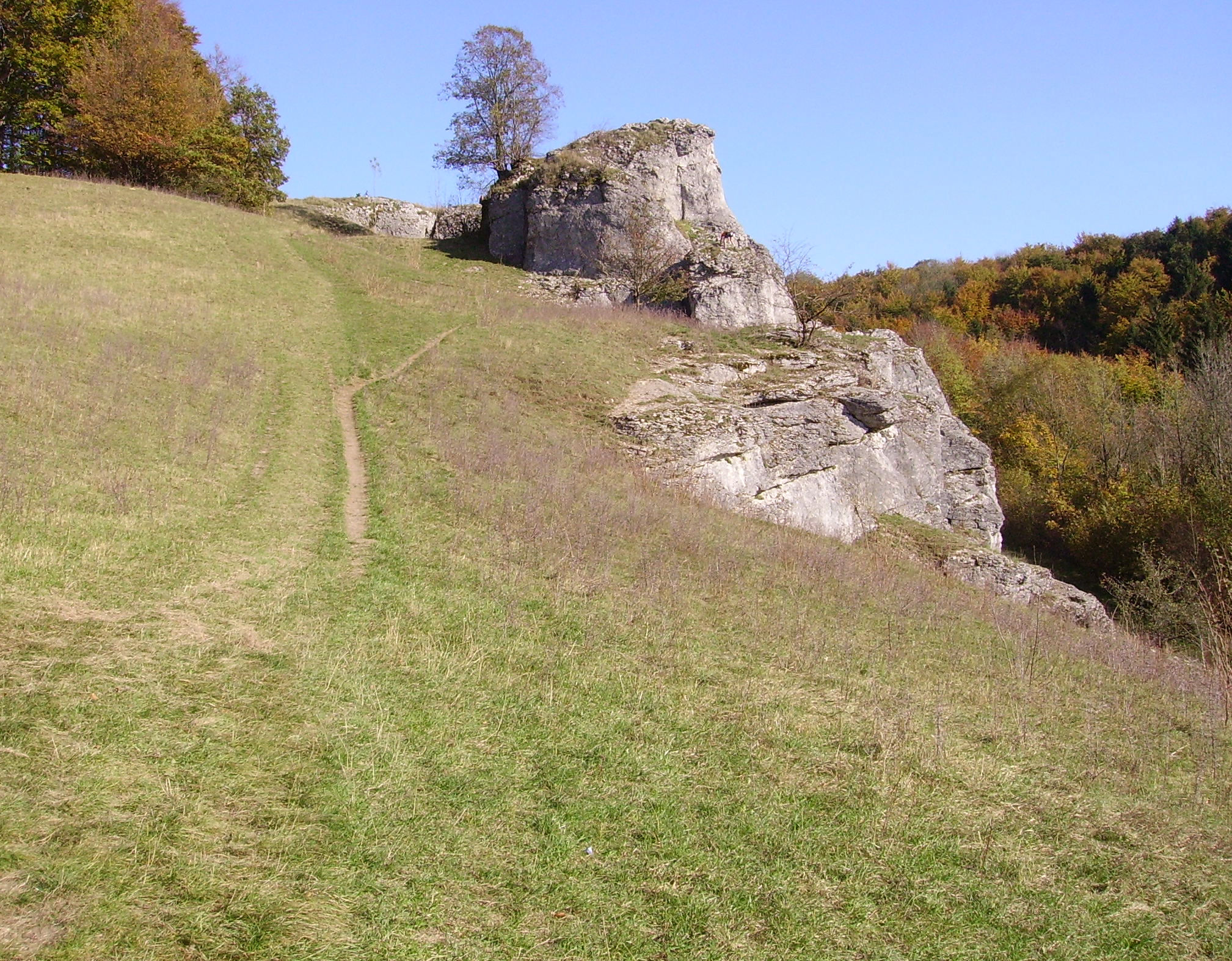 view of Tiefenellern, part of Litzendorf in Upper Franconia, Germany